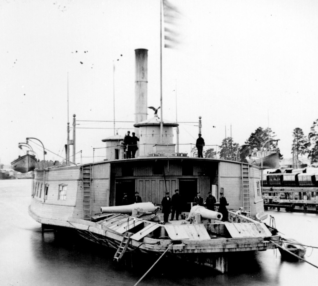 The USS Commodore Perry, a ferryboat converted into a gunboat. Photographed at Pamunkey River, Va., 1864.